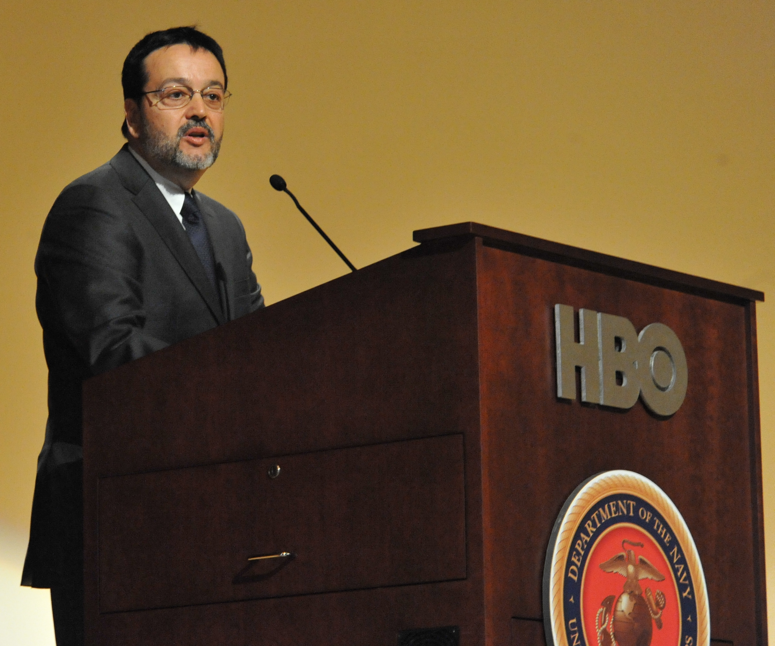 Len Amato, president of HBO Films, speaks at Little Hall Theater on Marine Corps Base Quantico prior to the Virginia premiere of HBO Films' Taking Chance on February 10, 2009. Kevin Bacon plays the role of U.S. Marine Lt. Col. Michael Strobl, the officer who escorted the body of Marine Lance Cpl. Chance Phelps home to Dubois, Wyoming from Dover, Delaware.